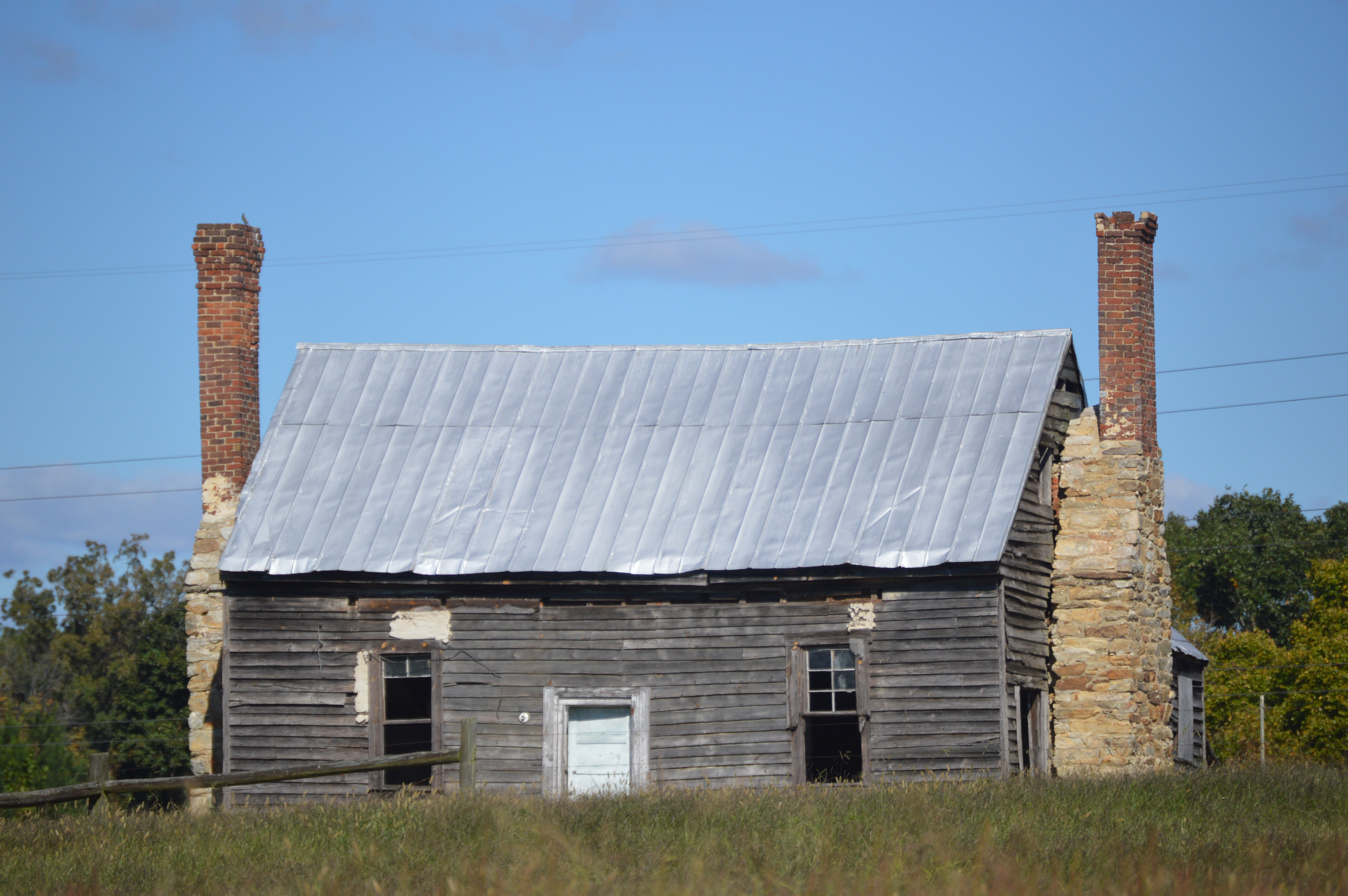 Front of the House on Wagstaff Farm, located on North Carolina Highway 57 northwest of Roxboro in Person County, North Carolina, United States. The house is listed on the National Register of Historic Places.